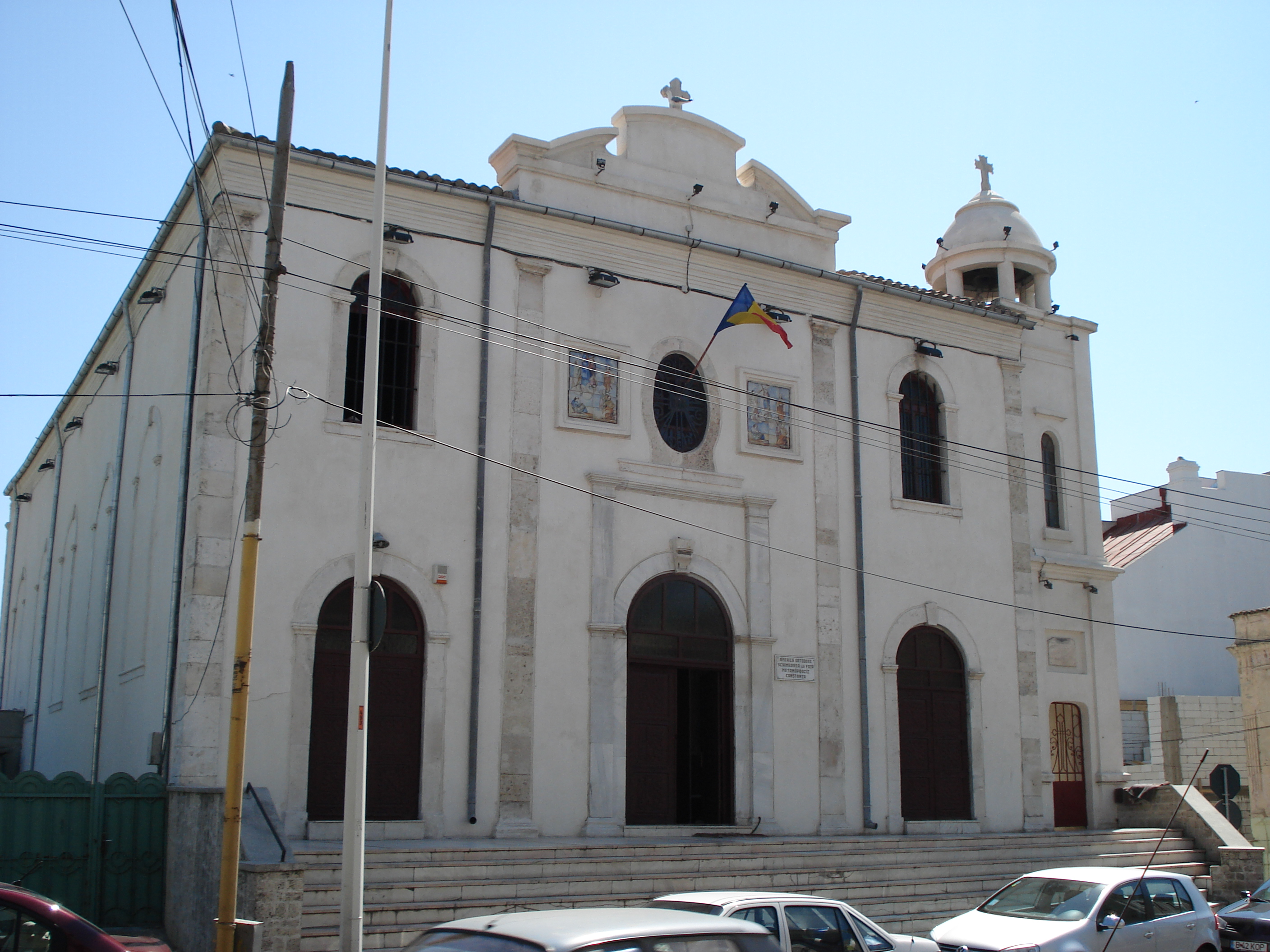 Eastern Orthodox Church Metamorphosis (Transfiguration of Jesus), Constanţa